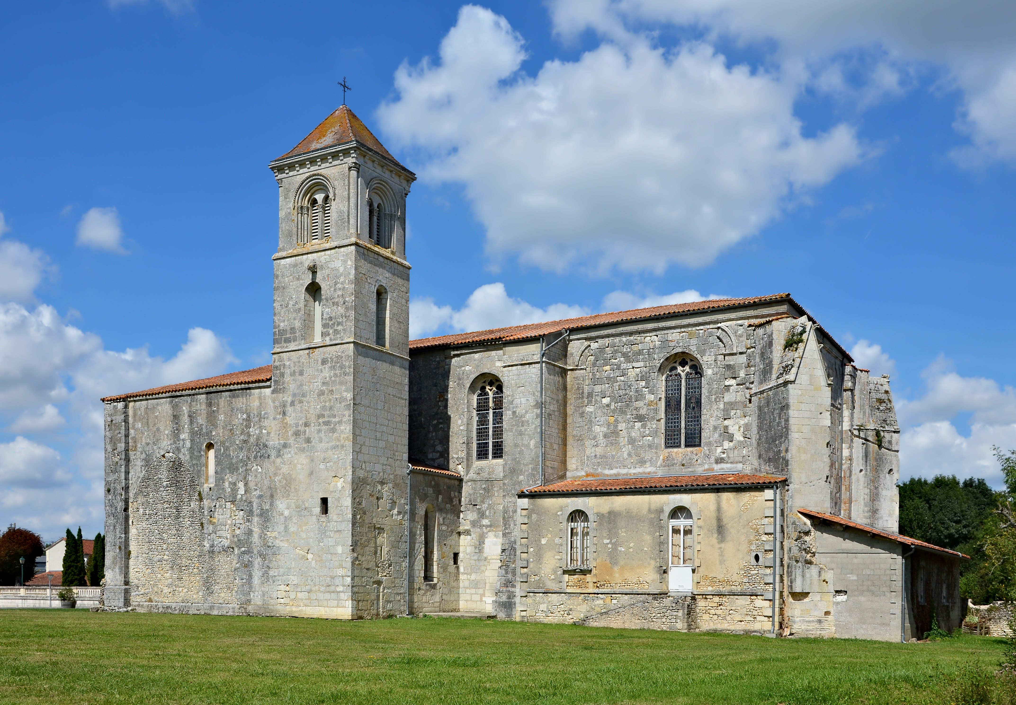 SE view of church of Saint-Étienne, remains of the abbey built in the 11th century, Baignes-Sainte-Radegonde, Charente, France. .